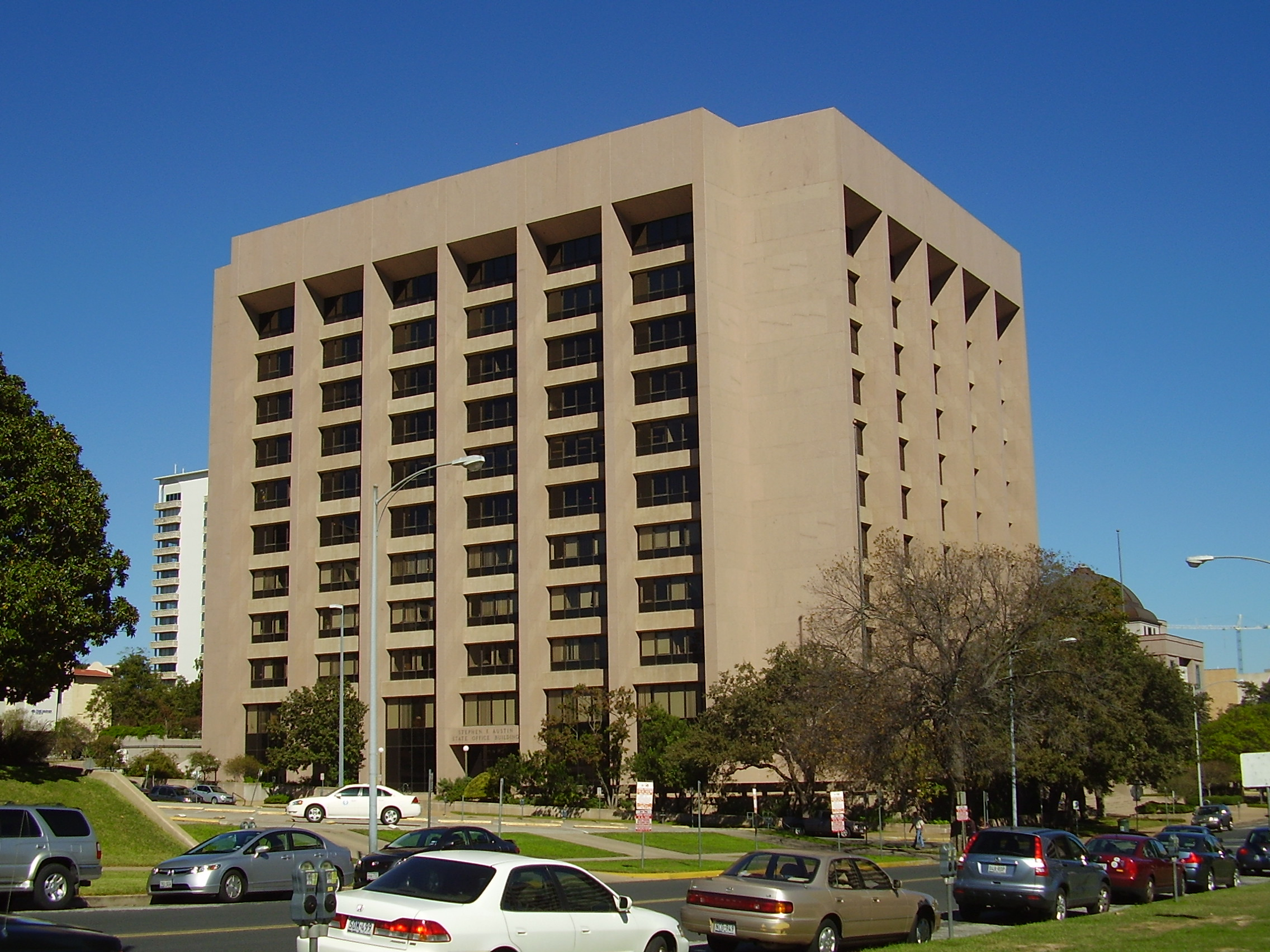 Stephen F. Austin State Office Building - Houses the main offices of the Texas Department of Agriculture on the 11th Floor and the main offices of the Texas General Land Office - Suite 220 has the Texas Department of Rural AffairsTexas Department of Rural Affairs. It also houses the Texas Veterans Commission. It used to have the Criminal Justice Policy Council